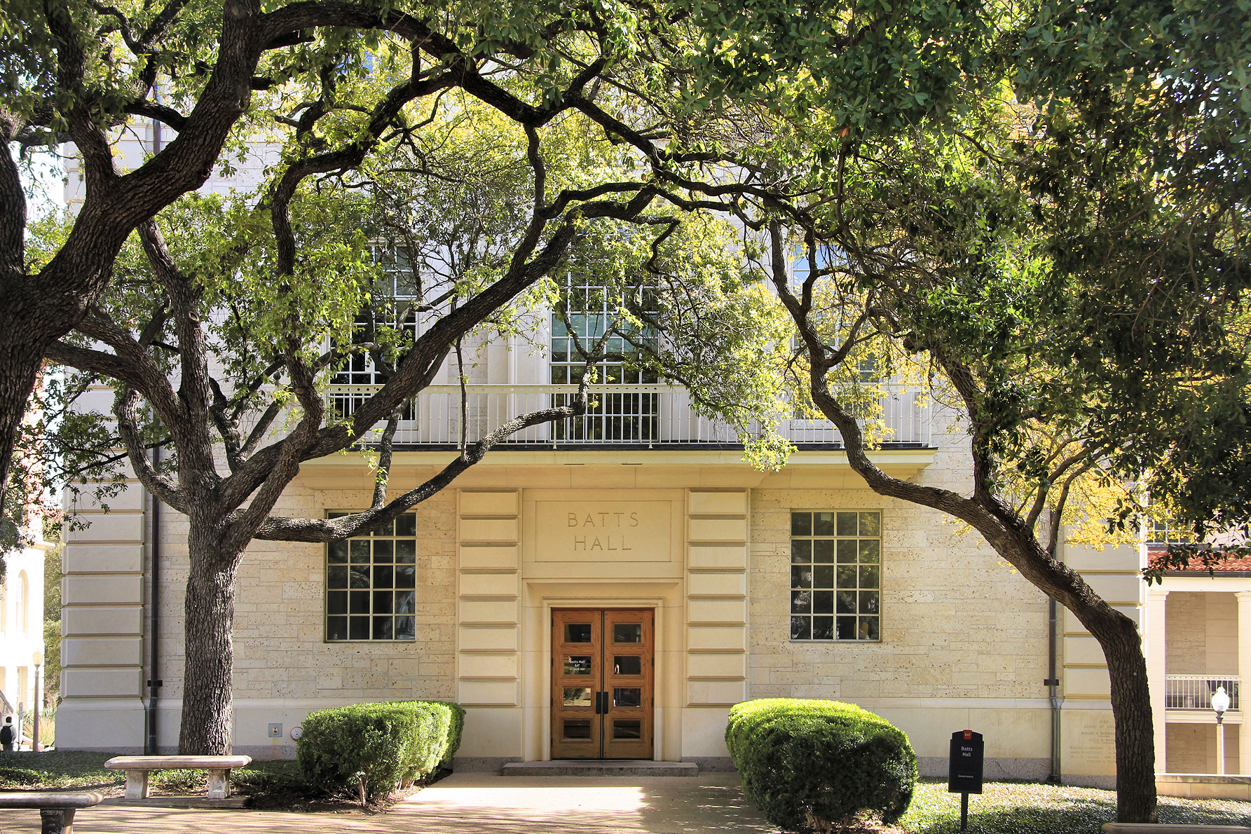 Batts Hall, located on the University of Texas at Austin campus, Austin, Texas, United States.